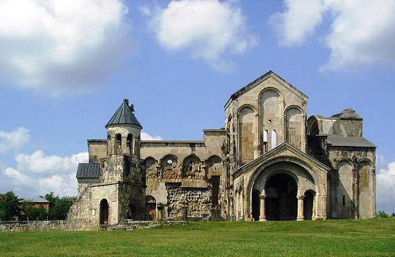 Bagrati cathedral in Kutaisi, Georgia